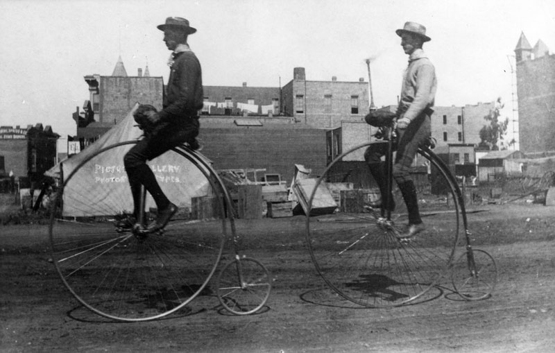 "James Irvine (II) and Harry Baechtel rode bikes from San Fernando to Irvine Ranch. Picture was taken in Santa Ana."